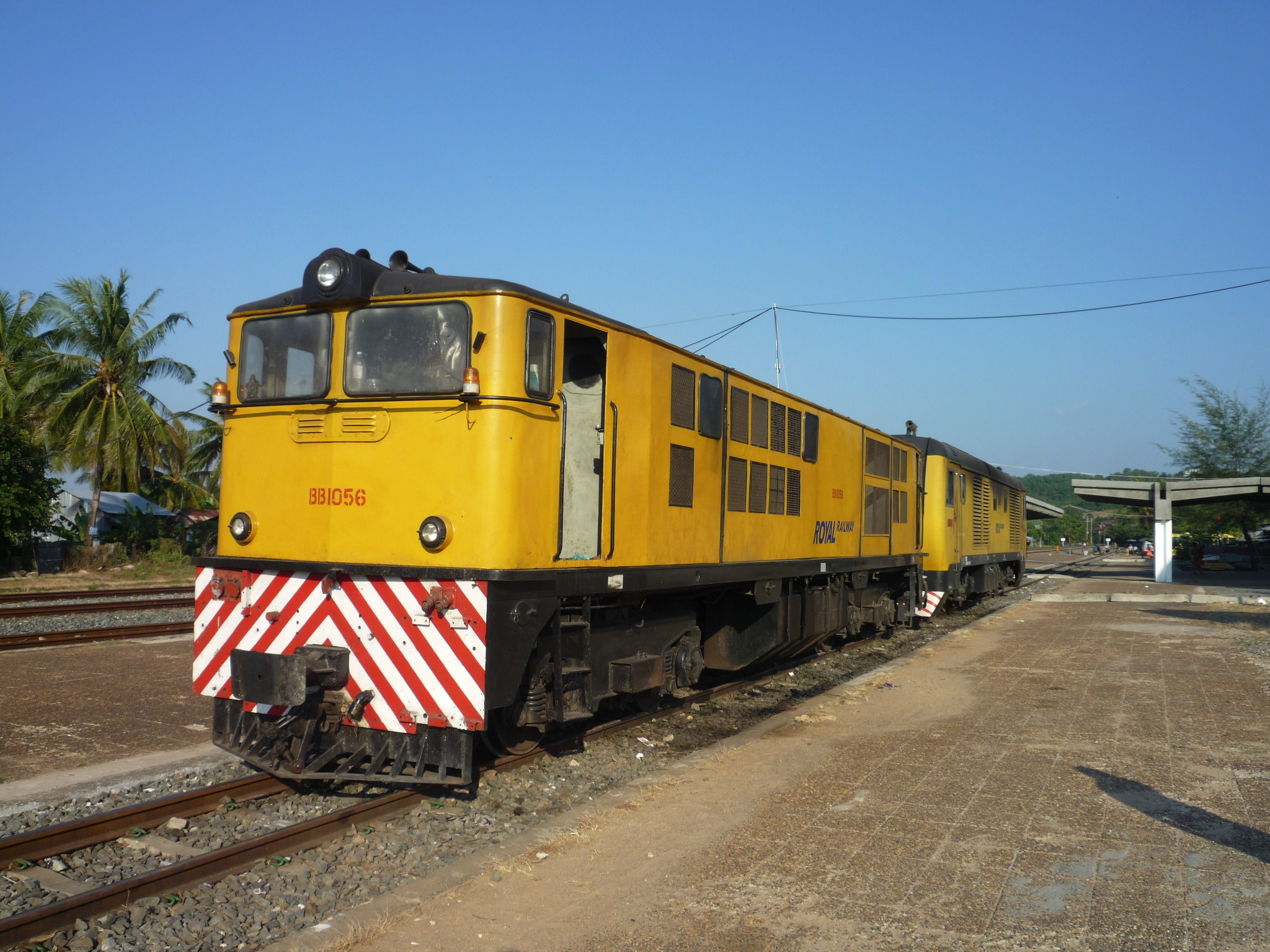 BB 1056 Diesel locomotive of ROYAL RAILWAY standing in passenger station Sihanoukville. Looking rather derelict, pipes and cables having been salvaged.